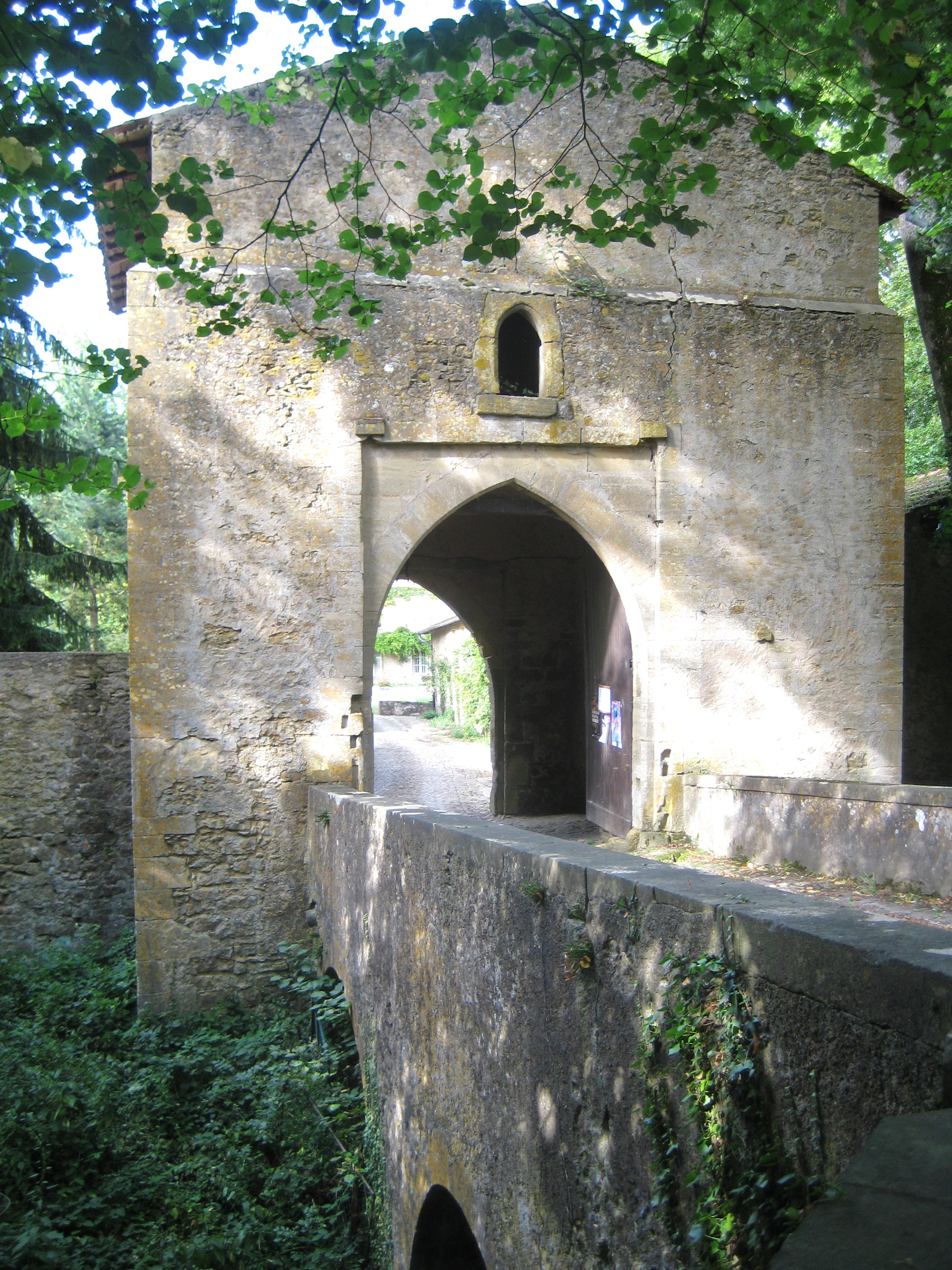 Description chateau Tichemont chateau Tichemont